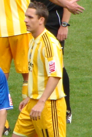 13/09/09 Cardiff V Newcastle, Cardiff City Stadium, Cardiff, Wales